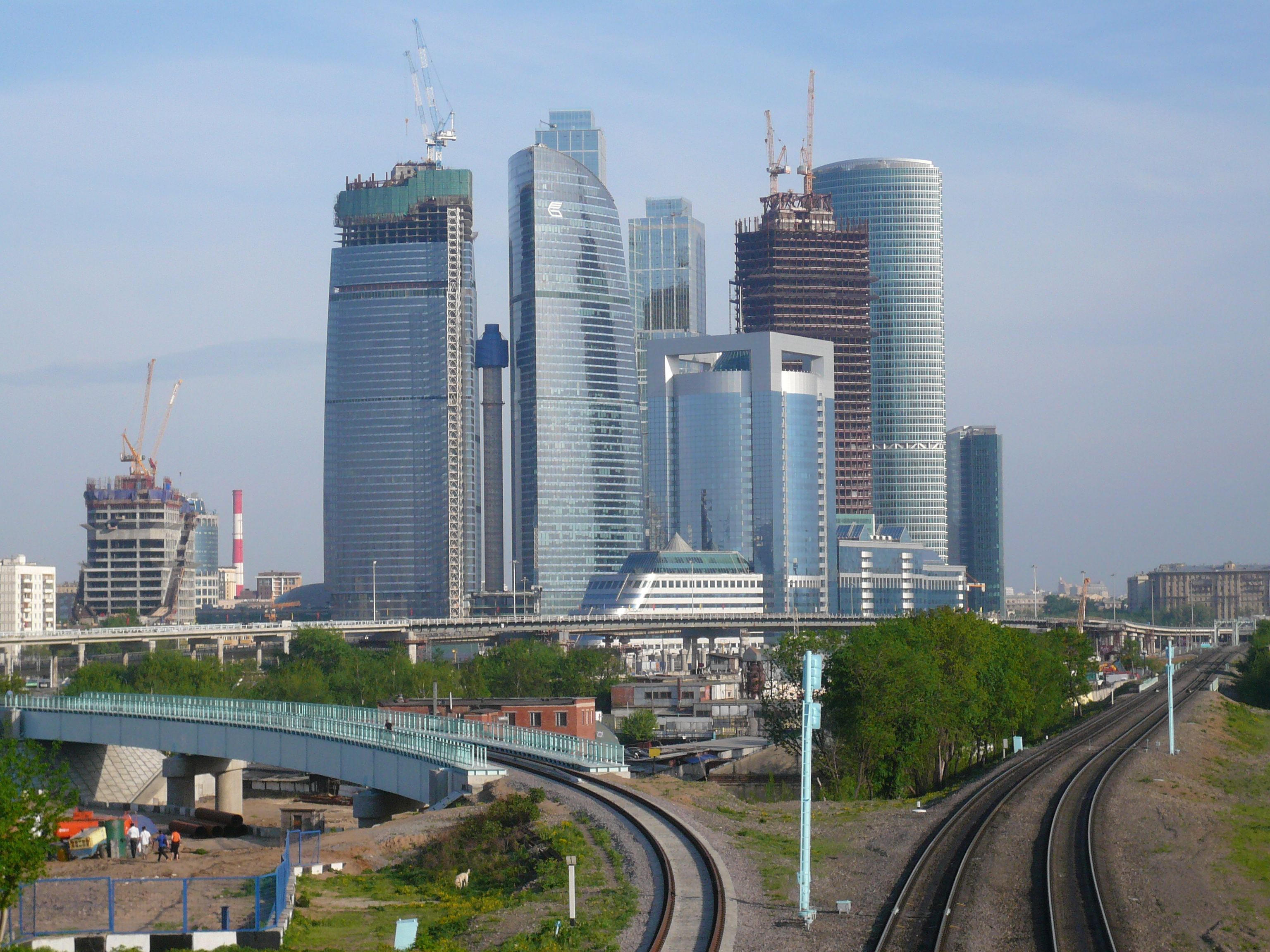 Moscow City